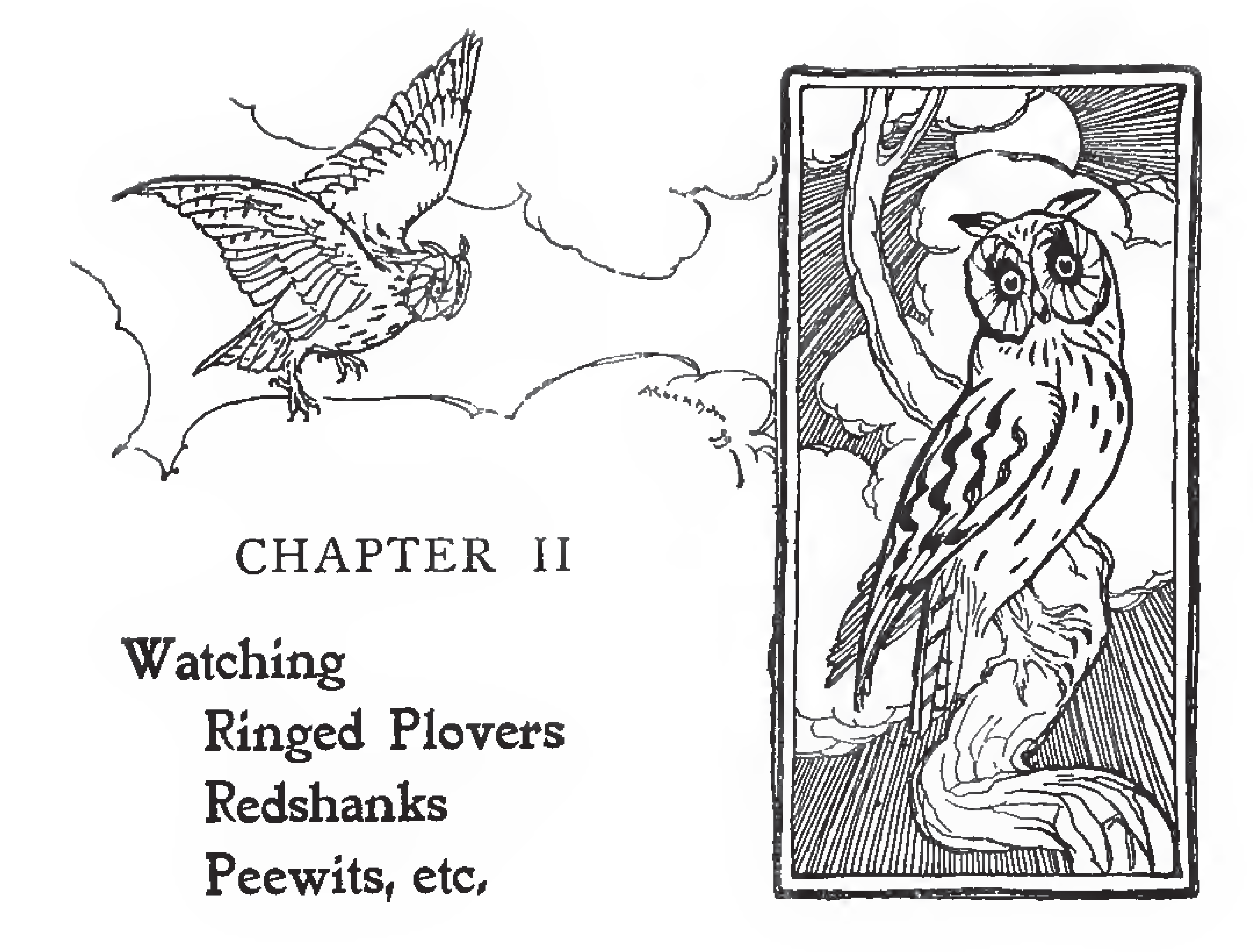 Illustration of owls from Edmund Selous's Bird Watching